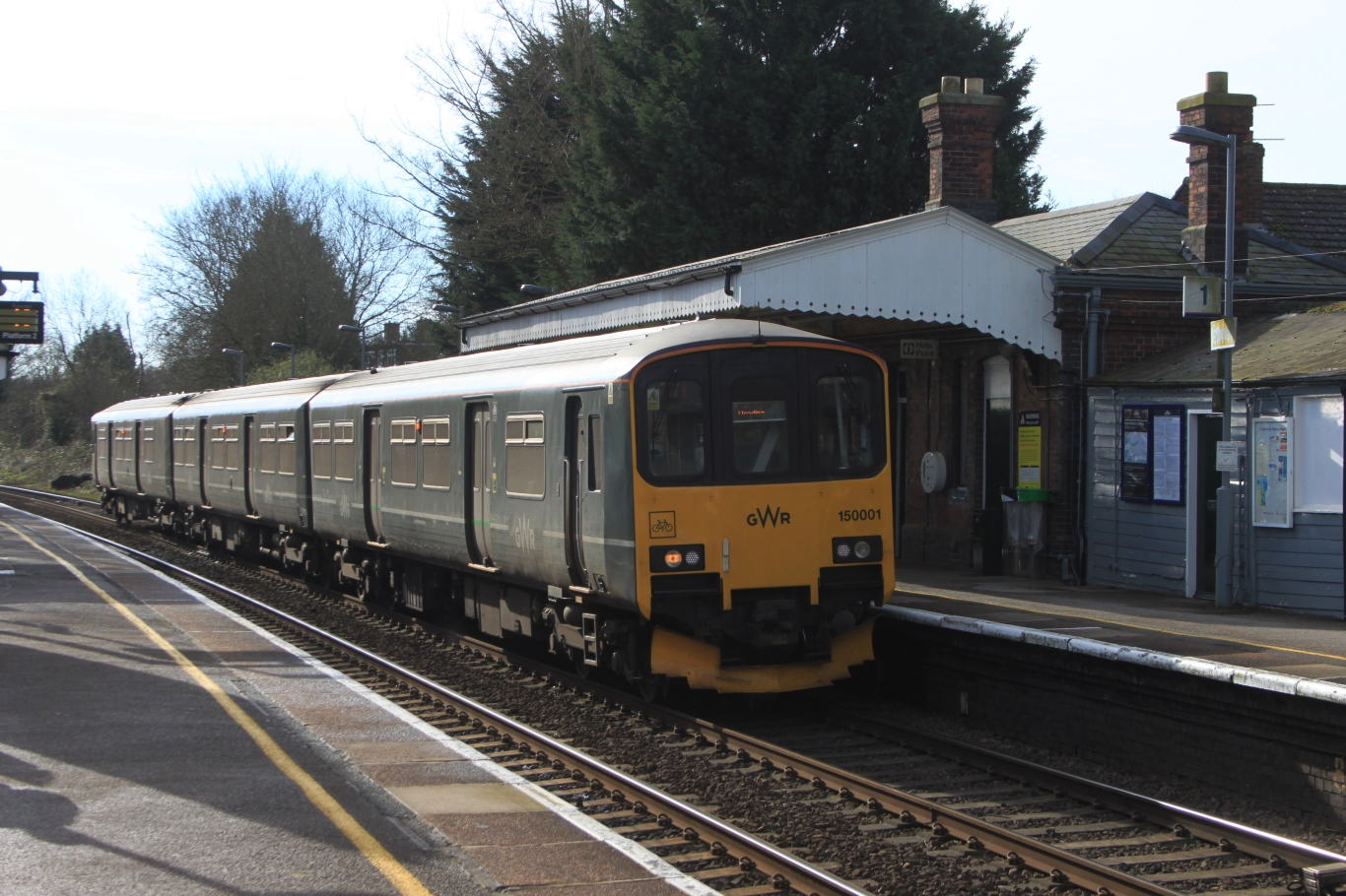 Refurbished 'Sprinter' 150001 calls at Bramley in Hampshire with a Great Western Railway service from Basingstoke to Reading.